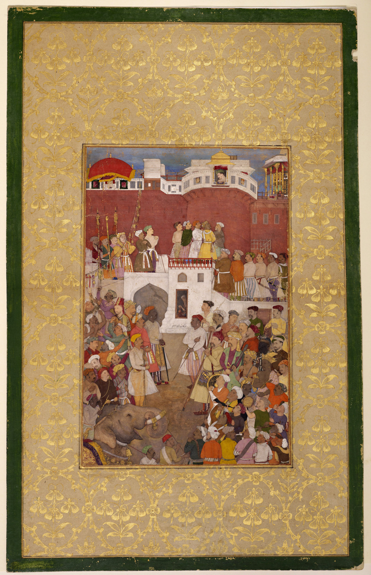 Abu'l Hasan. Emperor Jahangir At The Jharoka Window Of The Agra Fort, ca. 1620, Aga Khan Museum